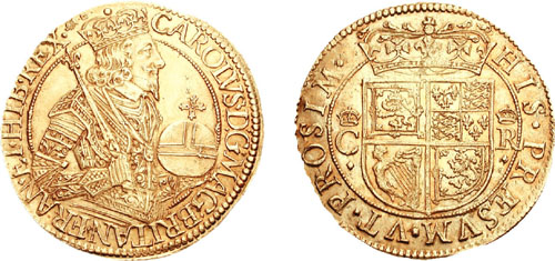 Scotland. Charles I of Scotland. 1625-1649. AV Unite (9.99 g, 6h). Third (Briot's) coinage, struck 1637-1642. CAROLVS D G MAG BRITAN FRAN ET HIB REX, half-length armored figure of king right, holding sceptre and orb; mm: thistle and B HIS • PRÆSVM • VT • PROSIM •, crowned coat-of-arms; flanked by crowned C R with diamonds. Burns 3 (fig. 1032); SCBI 35 (Ashmolean), 1392 (same dies); SCBC 5531. Good VF, toned, faint adjustment marks, struck from rusty dies. Note thistle is the mm for Edinburgh and B is for Nicolas Briot, Master of the Scottish Mint Nicholas Briot (1579–1646) Alternative names Nicolas BriotDescriptionFrench engraverDate of birth/death 1579 24 December 1646Location of birth/death Damblain LondonWork location Paris; LondonAuthority control : Q782996 VIAF: 61821437 ISNI: 0000 0000 8141 474X ULAN: 500041327 LCCN: nb2007022485 Oxford Dict.: 3444 WorldCat creator QS:P170,Q782996